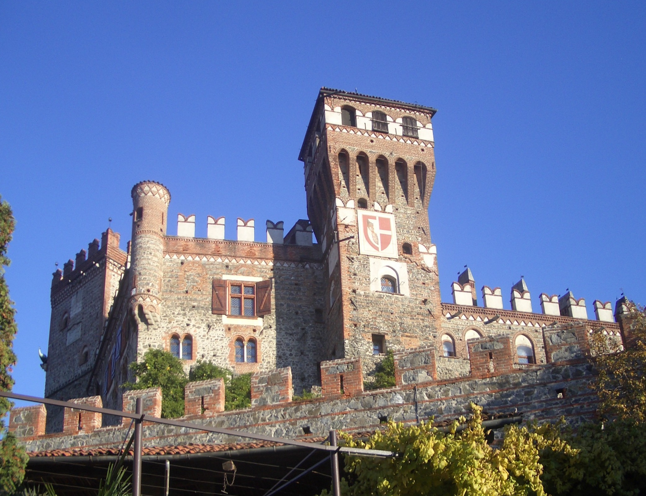 ”Castle”, Pavone Canavese, Turin, Italy